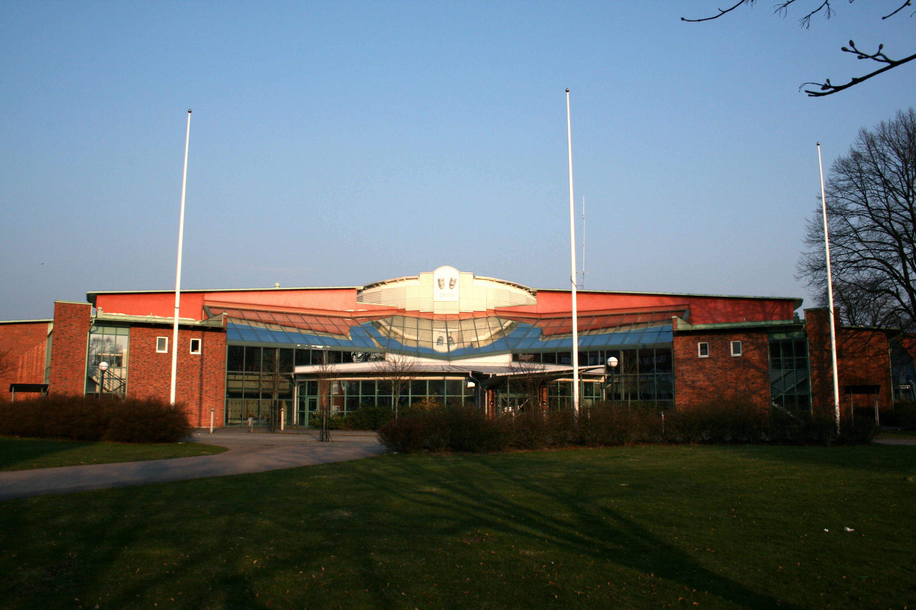 Sturegymnasiet in Halmstad.